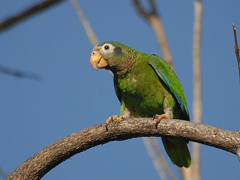 Yellow-billed Amazon in the St. Andrew, Jamaica.